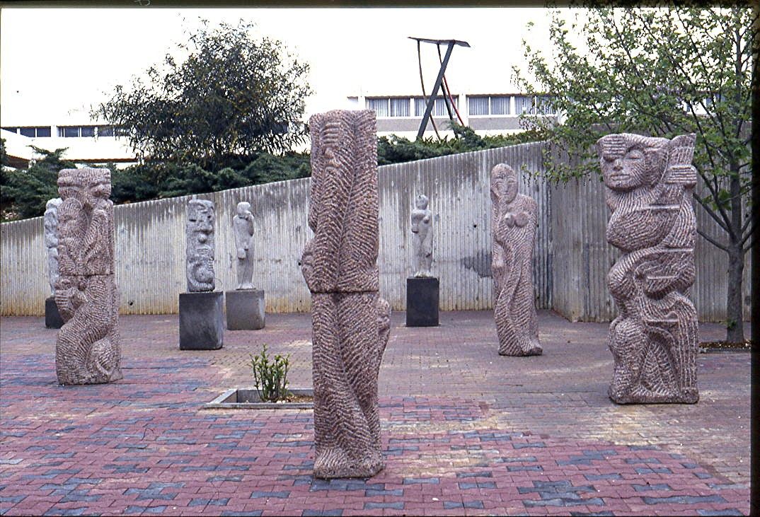 13 Shelomo Selinger's sculptures exposed in Tel Haï at the Tefen industial park in Israel